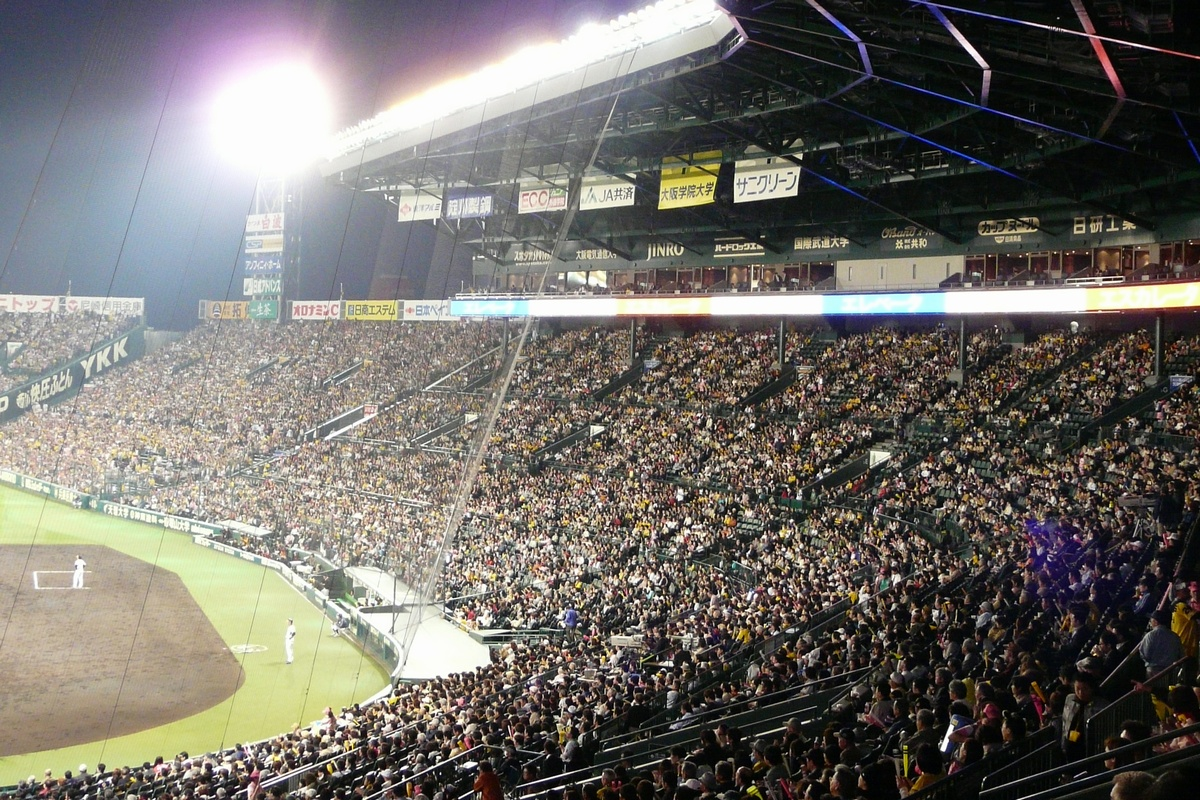 Hanshin_Koshien_Stadium8